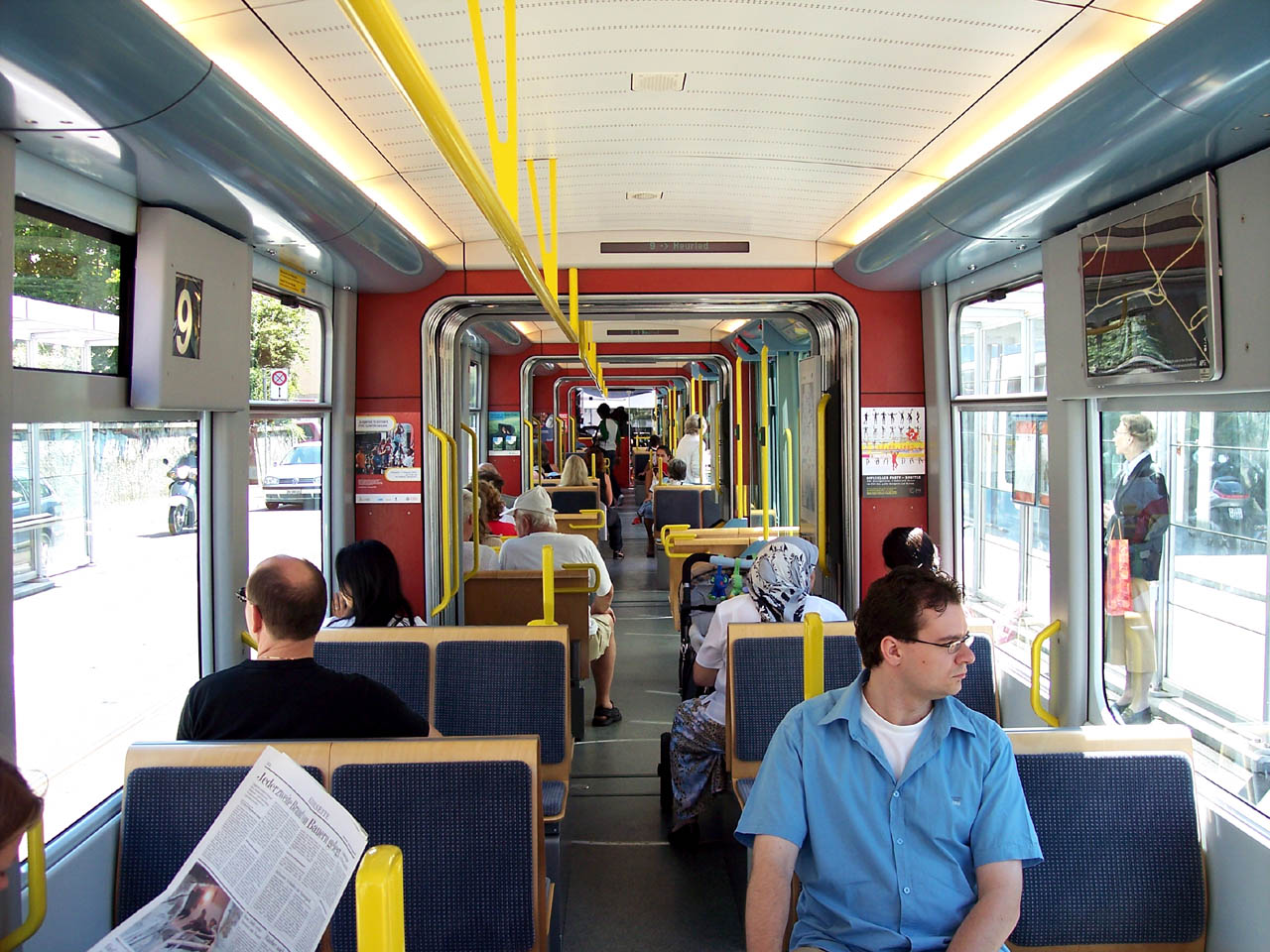 Trams in Zürich: Interior view of a Be 5/6 "Cobra" low floor tram.